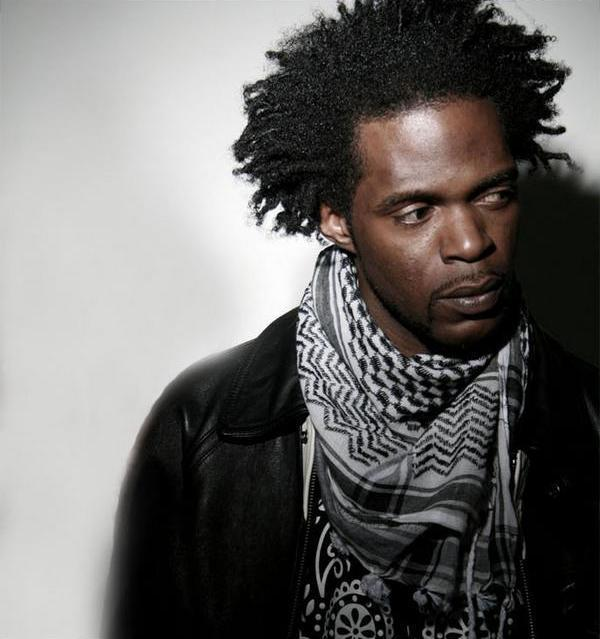 picture of Ju Ly